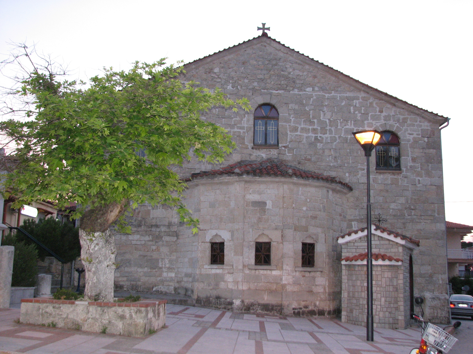 Church Agioy Anacioy in Polychrono, Greece